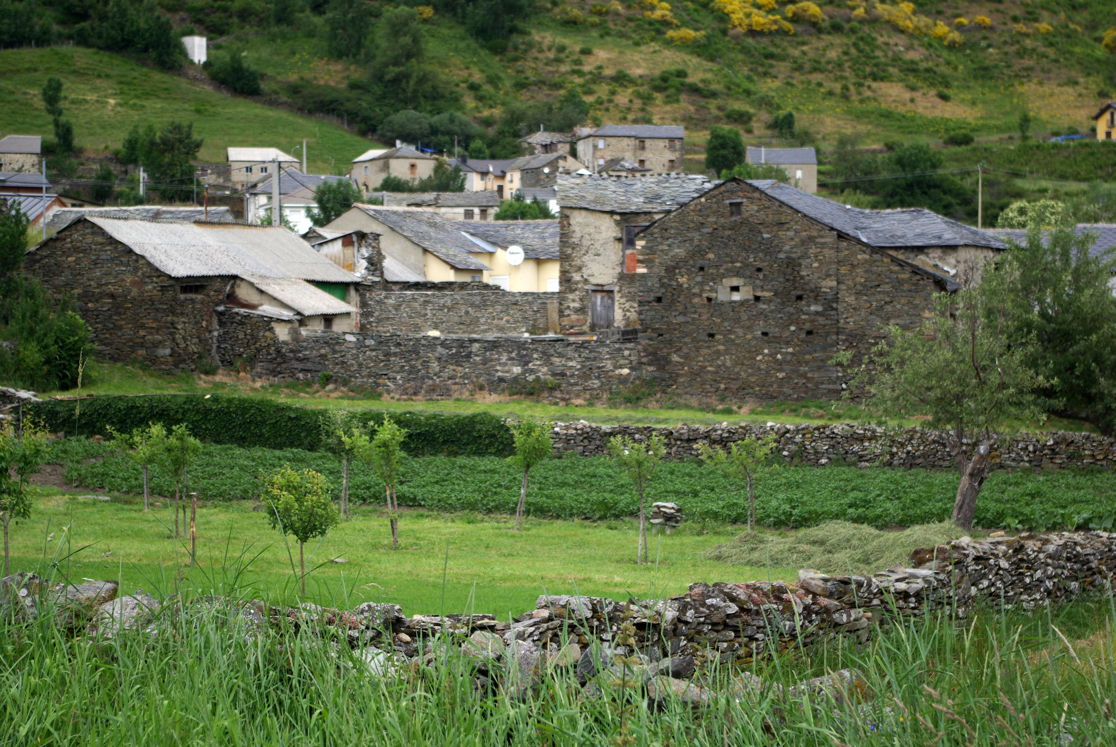 Montrondo (Murias de Paredes, León, Spain)